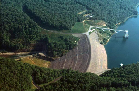 Picture of Gathright Dam